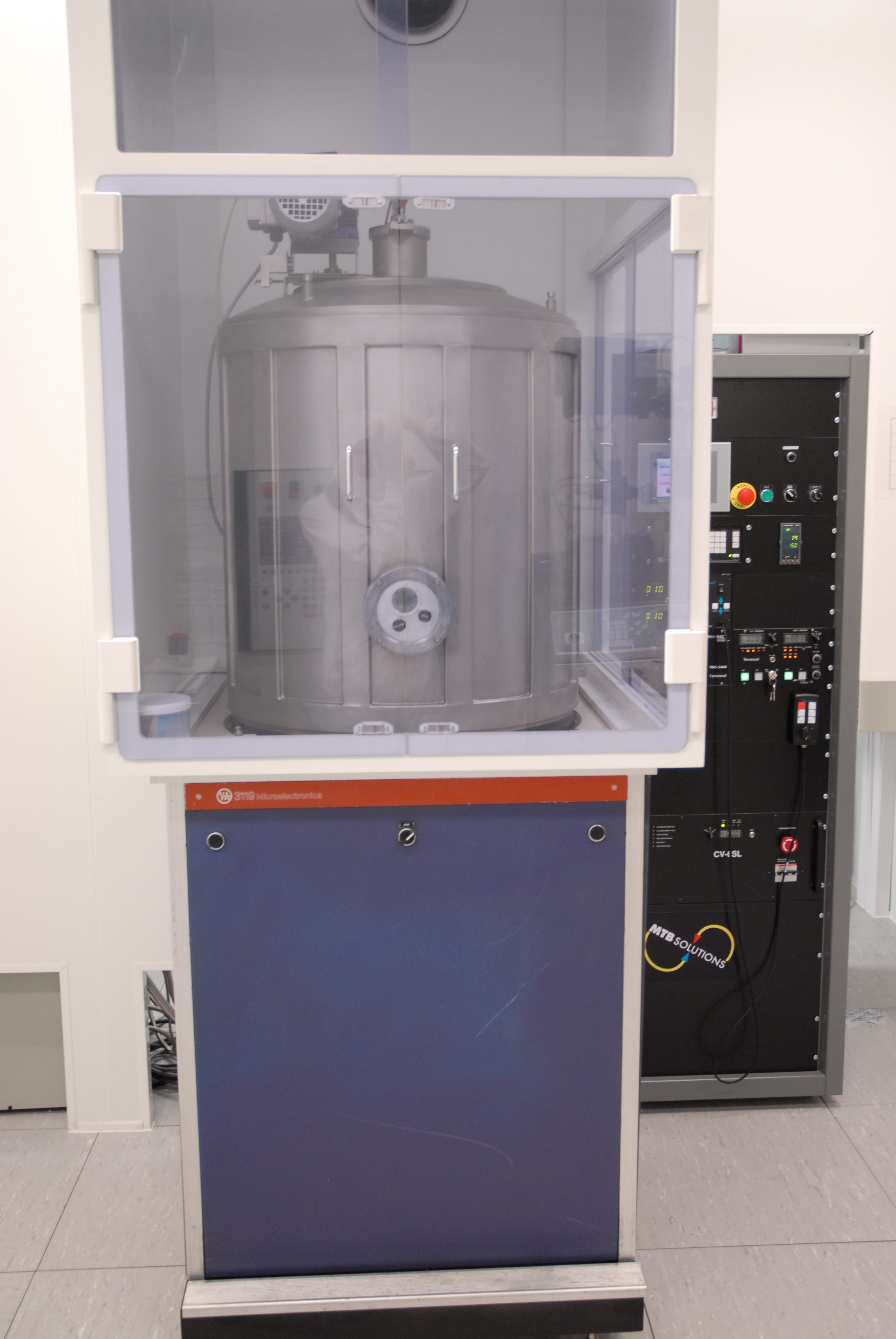 Varian 3119 planetary evaporation machine used for metallizations at LAAS technological facility in Toulouse, France.